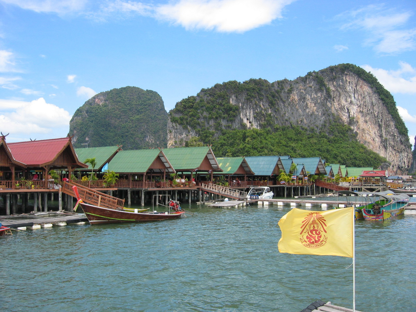 Koh Panyi Village, a muslim village built on stilts in Phang Nga Bay, Thailand.